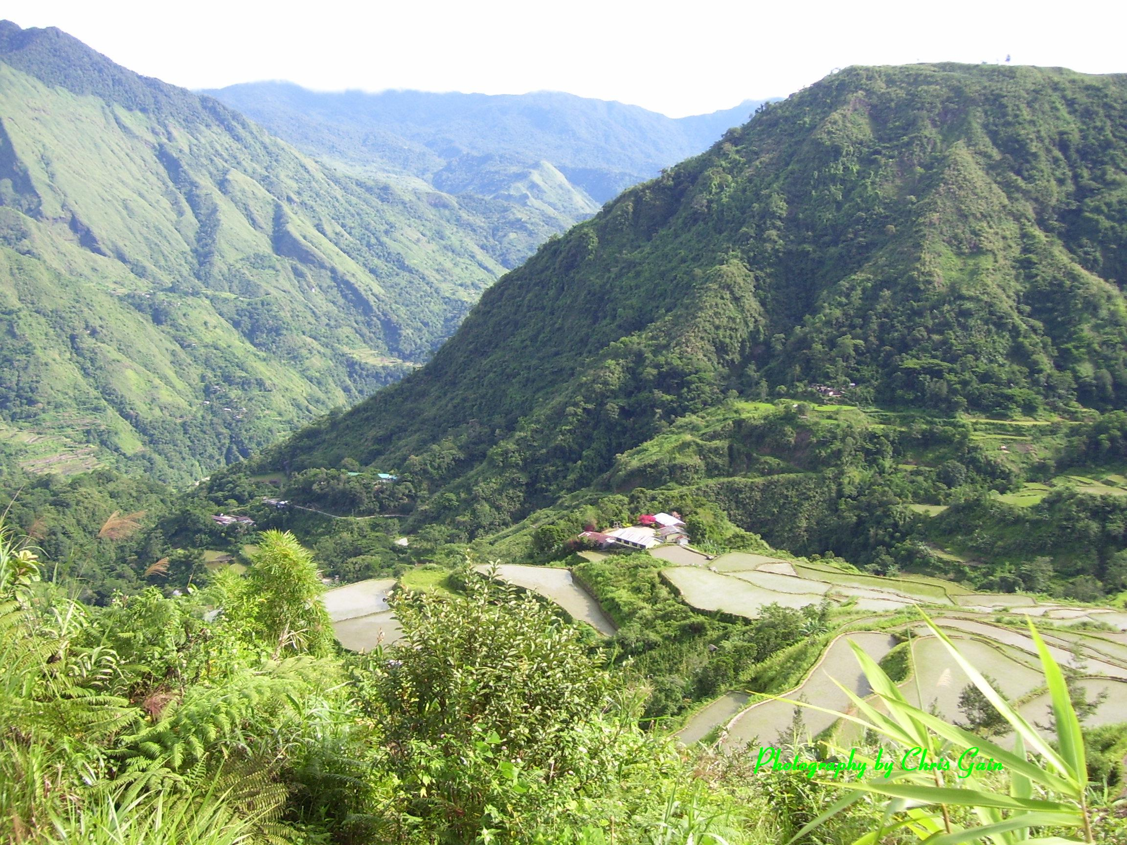 Upper Uma Elementary School, Pasil Valley, Upper Kalinga, (centre), viewed from Ag-gama to Duya-as track, July 2008